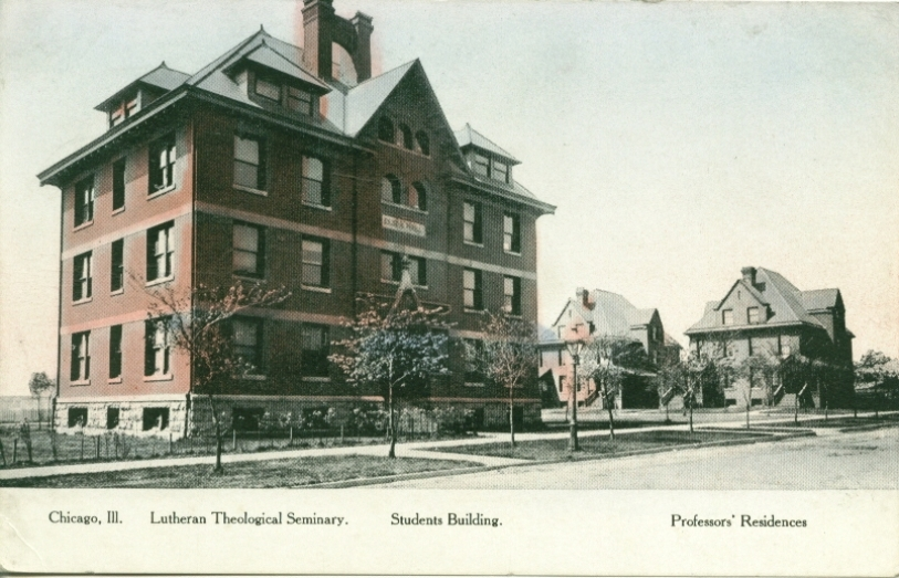 A period postcard showing Eliza Hall at the Chicago Lutheran Theological Seminary dating from between 1900 and 1909.